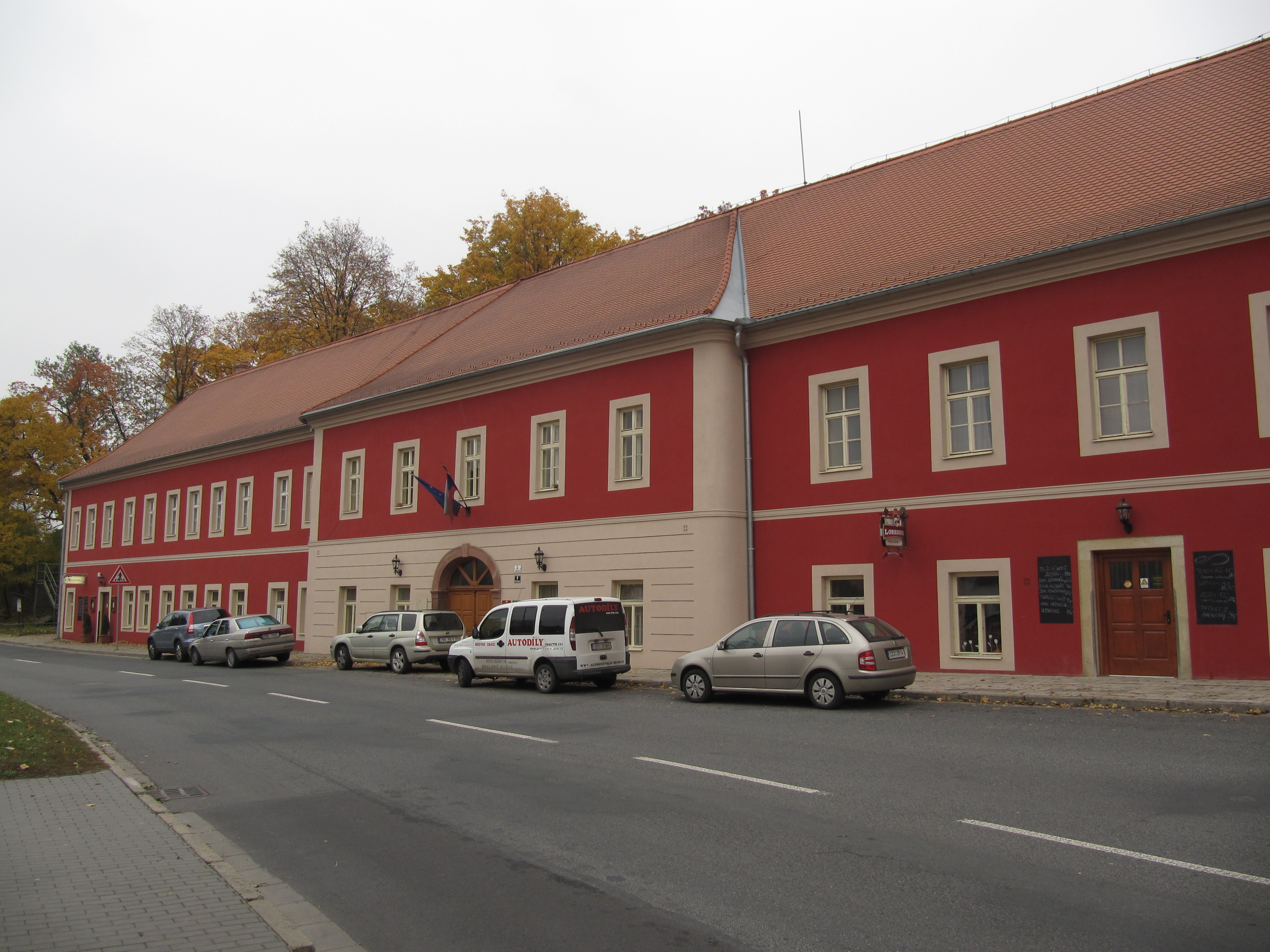 Brno, part Medlánky, Czech Republic. Castle.